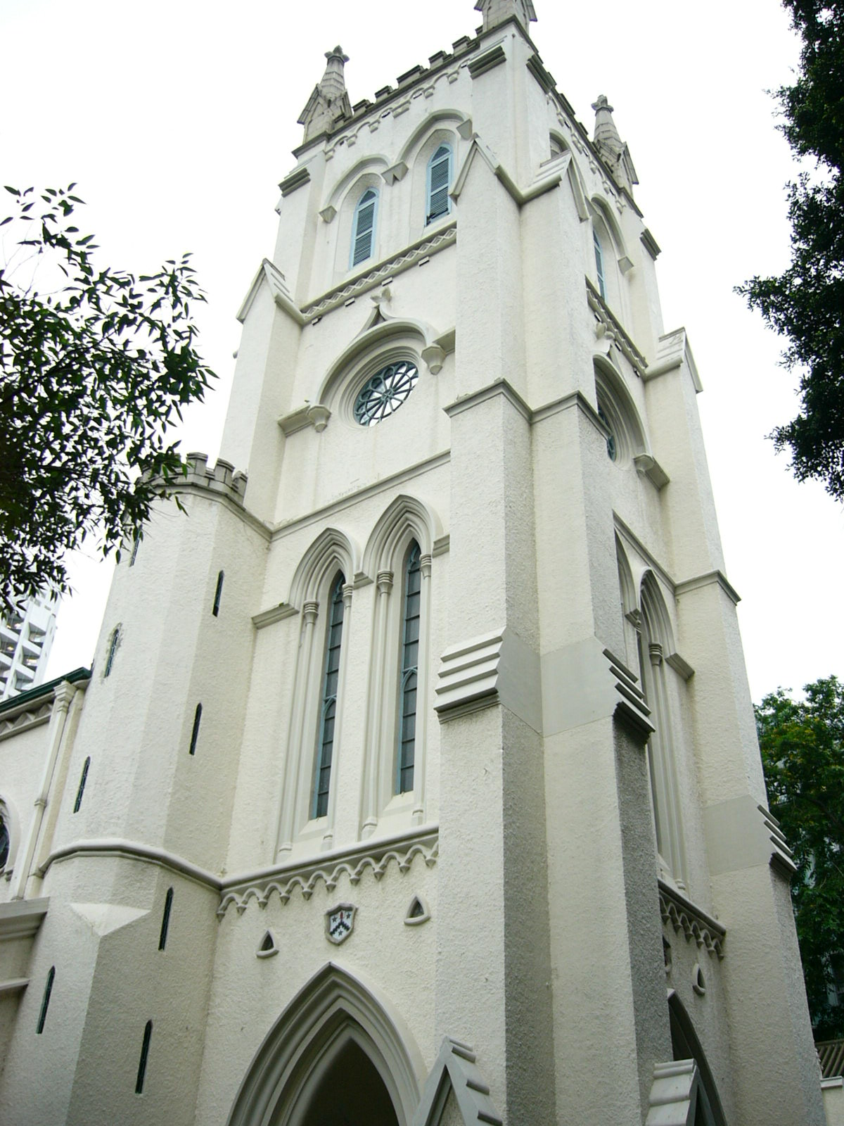 St. John's Cathedral